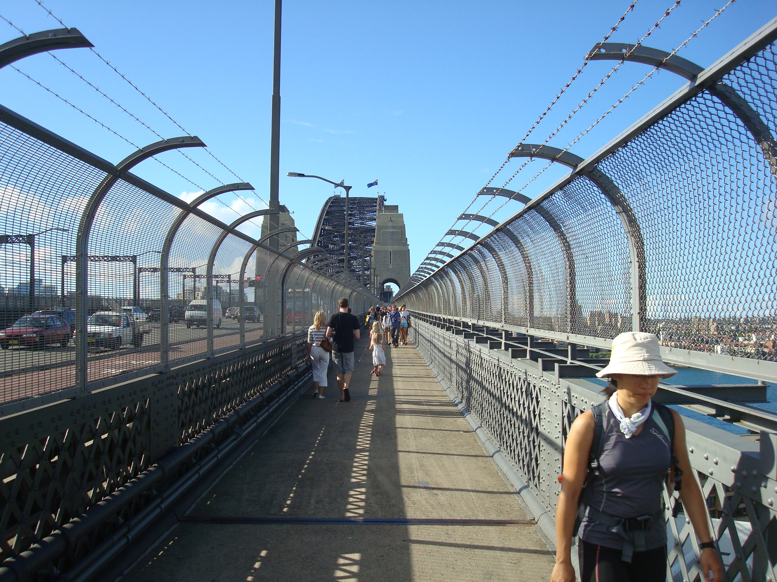 The Sydney Harbour Bridge pedestrian crossing